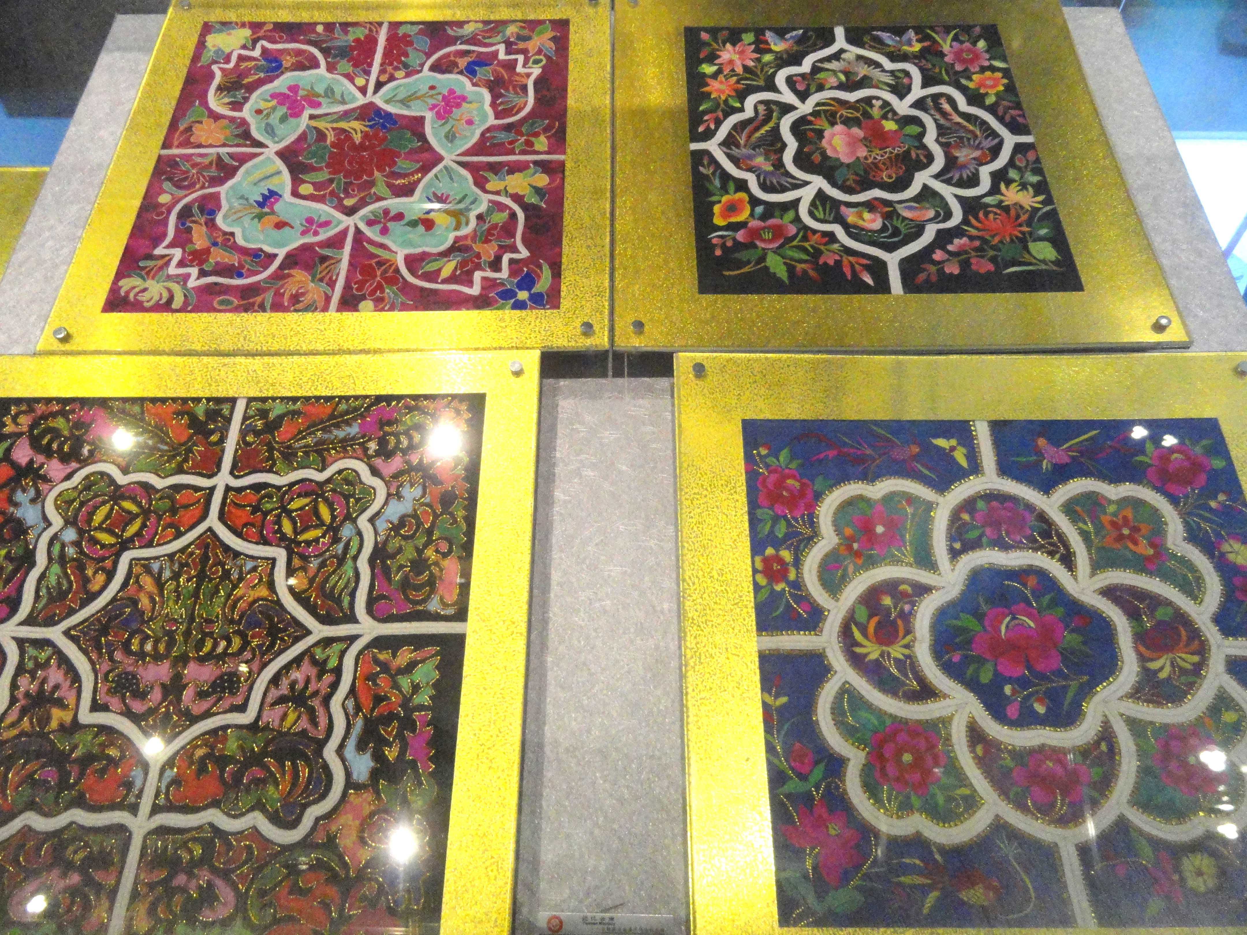 Zhuang embroidery. Exhibit in the Yunnan Provincial Museum, Kunming, Yunnan, China.